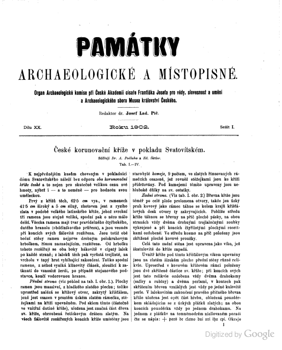 Front page of Památky archeologické, year 1902, volume XX., issue 1, partially showing an article on Czech coronation crosses in St Veit Treasure.